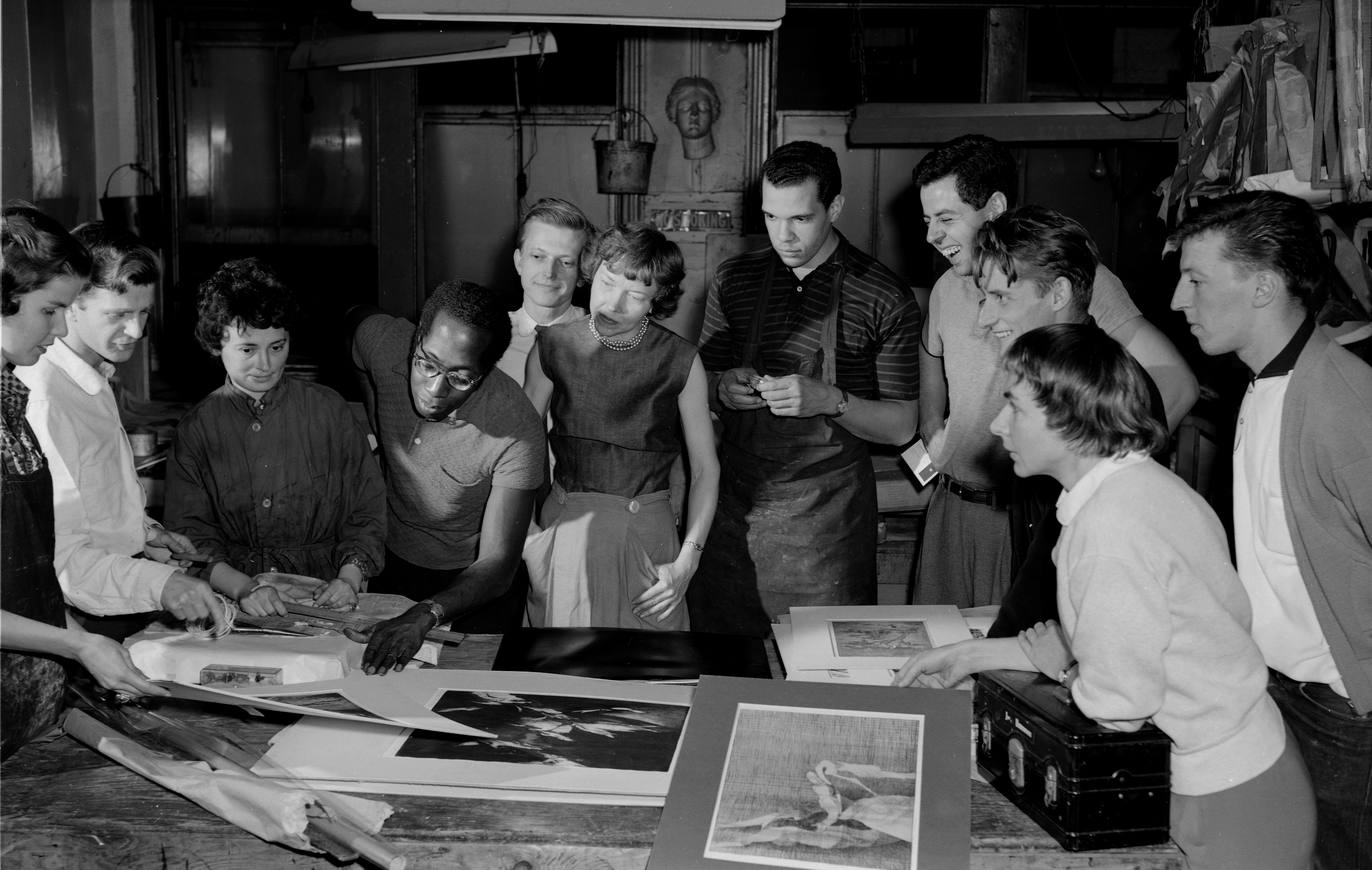 Chaim Koppelman, Robert Blackburn, Thomas Laidman and others in the workshop.